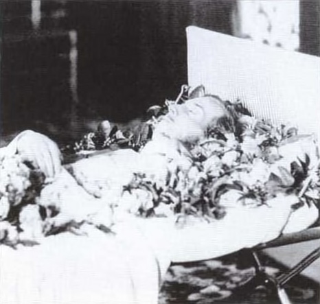 Tsesarevich Nicholas Alexandrovich of Russia lying in state.